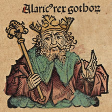 Illustration from the Nuremberg Chronicle